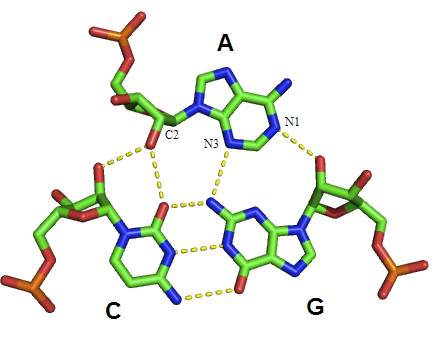 A-minor motif type one rendered from PYMOL 1FFK